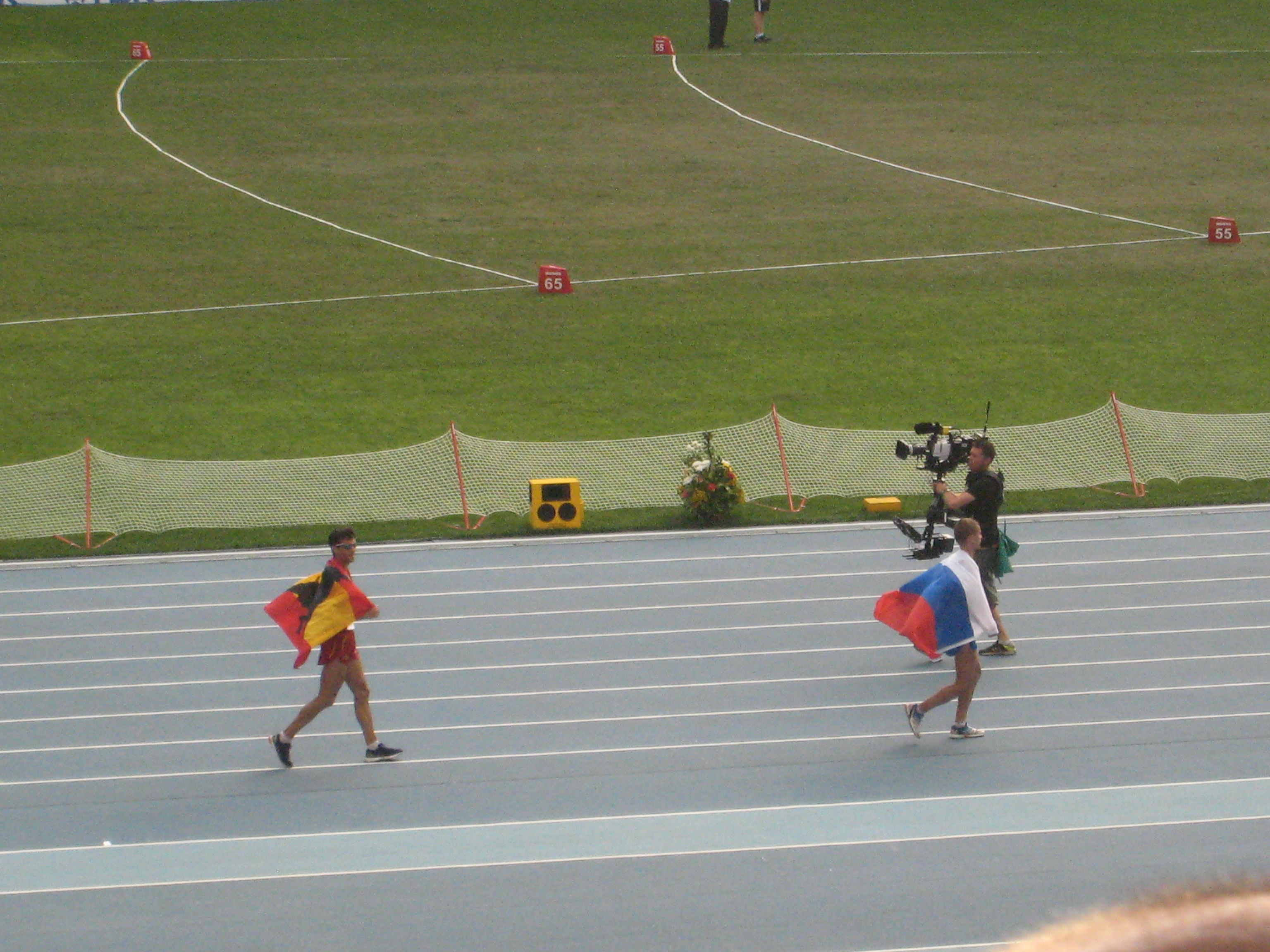 2013 IAAF World Championships in Moscow. 20 km walk men. Miguel Ángel López and Aleksandr Ivanov